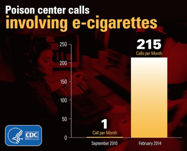 Rapid rise highlights need to monitor nicotine exposure through e-cigarette liquid and prevent future poisonings